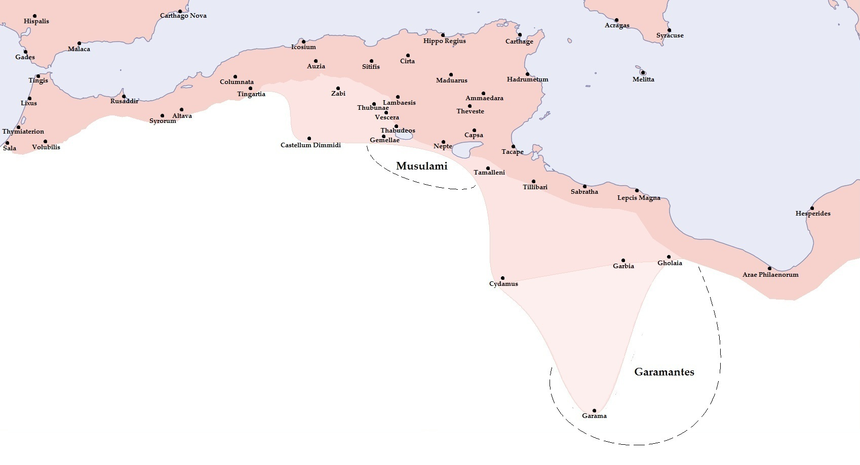 The frontier of Roman Africa (dark tan) in the late 2nd century AD. Septimius Severus expanded the Limes Tripolitanus dramatically (medium tan), even briefly holding a military presence (light tan) in the Garamantian capital Garama in 203. Much of the initial campaigning success was achieved by the legate of Legio III Augusta, Quintus Anicius Faustus.